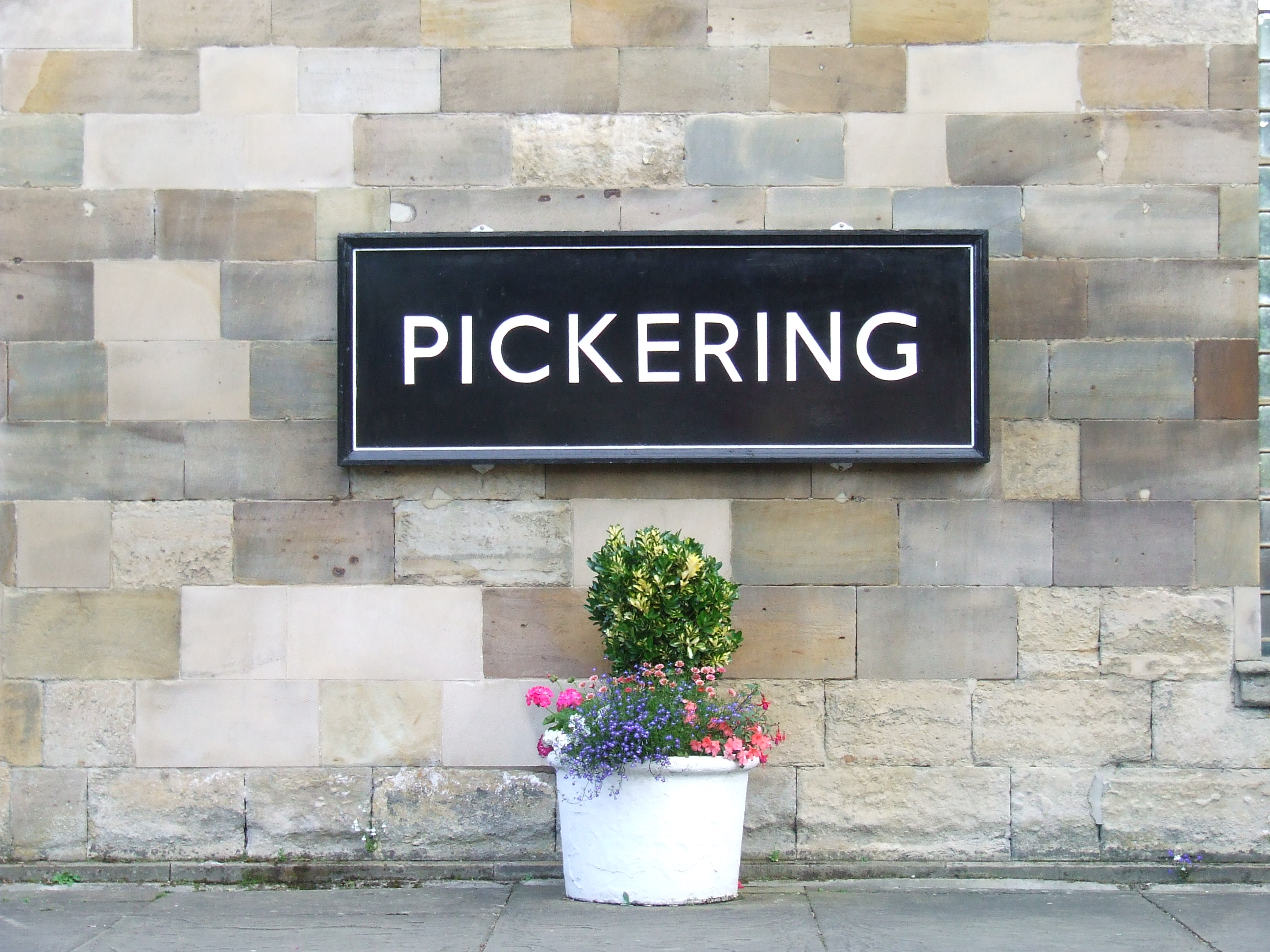 The running in board at Pickering Station on the heritage North Yorkshire Moors Railway, UK. The lettering is similar to Gill Sans, which was widely used by the London and North Eastern Railway, although this example appears to be a re-creation in which some of the letterforms have become distorted.